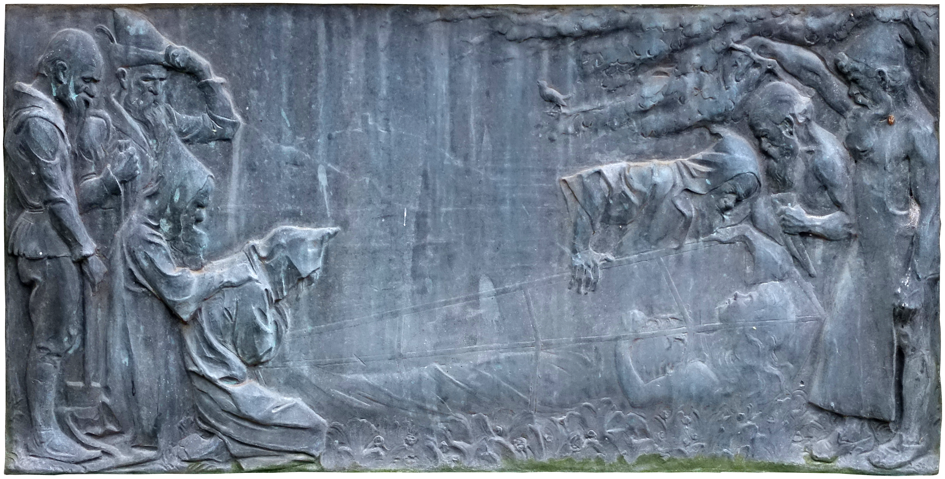 Snow White commemorative relief for Princess Elisabeth of Hesse (1895-1903) in the Herrngarten of Darmstadt To our little Princess, the children of Darmstadt